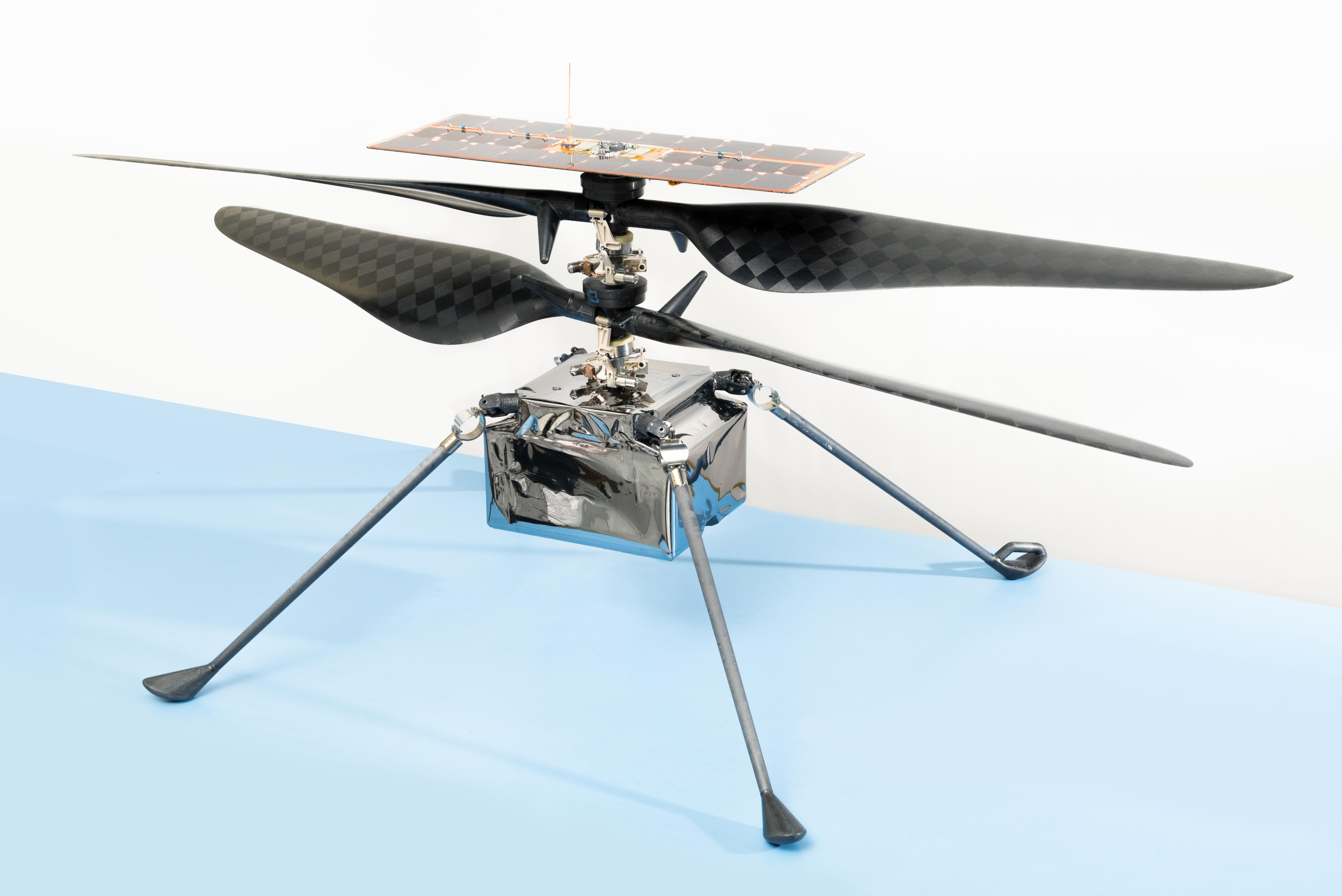 PIA23882: NASA's Ingenuity Mars Helicopter This image shows the flight model of NASA's Ingenuity Mars Helicopter. The flight model of NASA's Ingenuity Mars Helicopter. For more information about the mission, go to